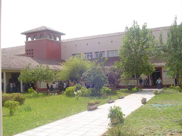 Facultad de Cs. Sociales y Económicas, Universidad de La Serena